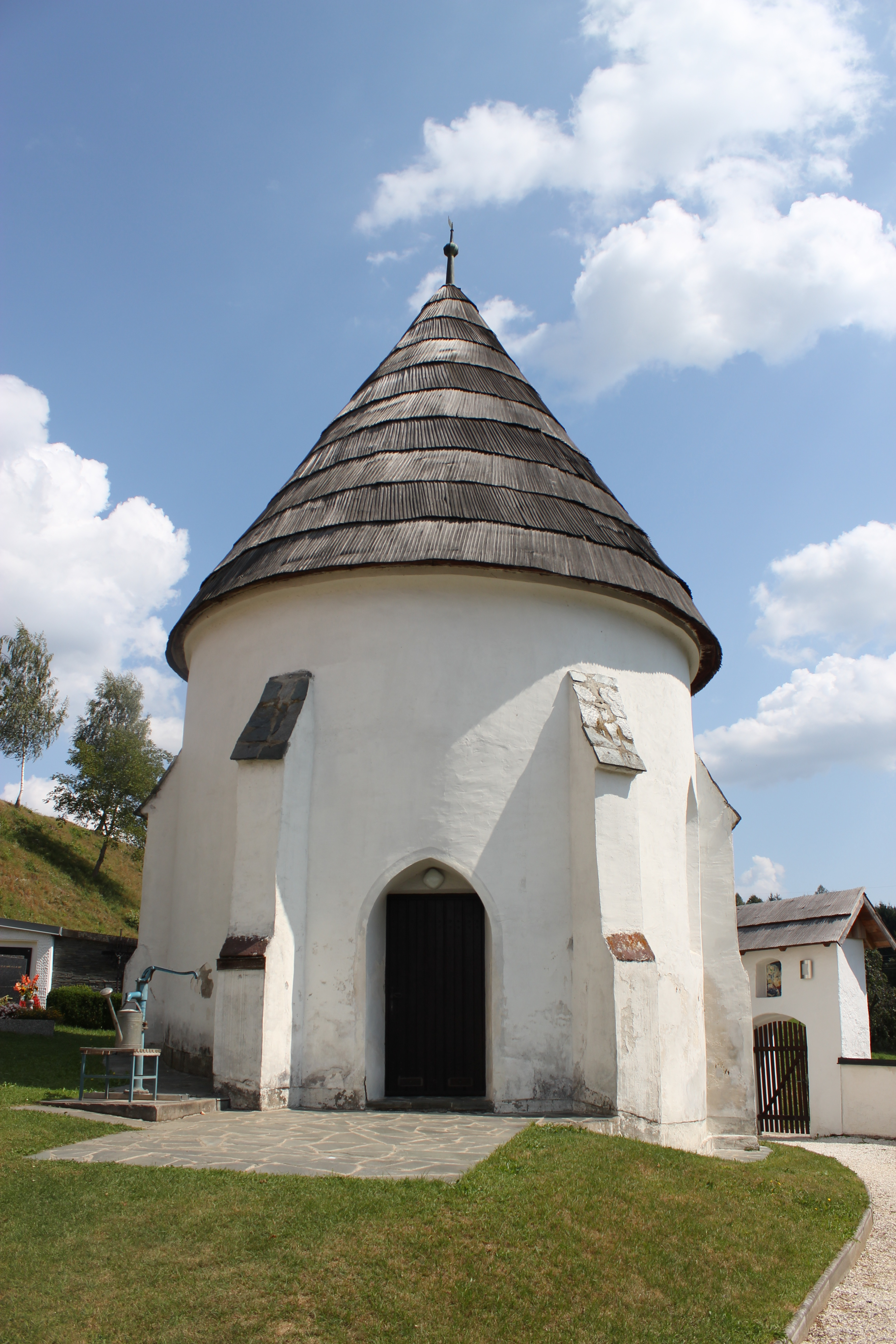 Ossuary in Sankt Agnes, municipality Voelkermarkt, district Voelkermarkt, Carinthia / Austria / EU